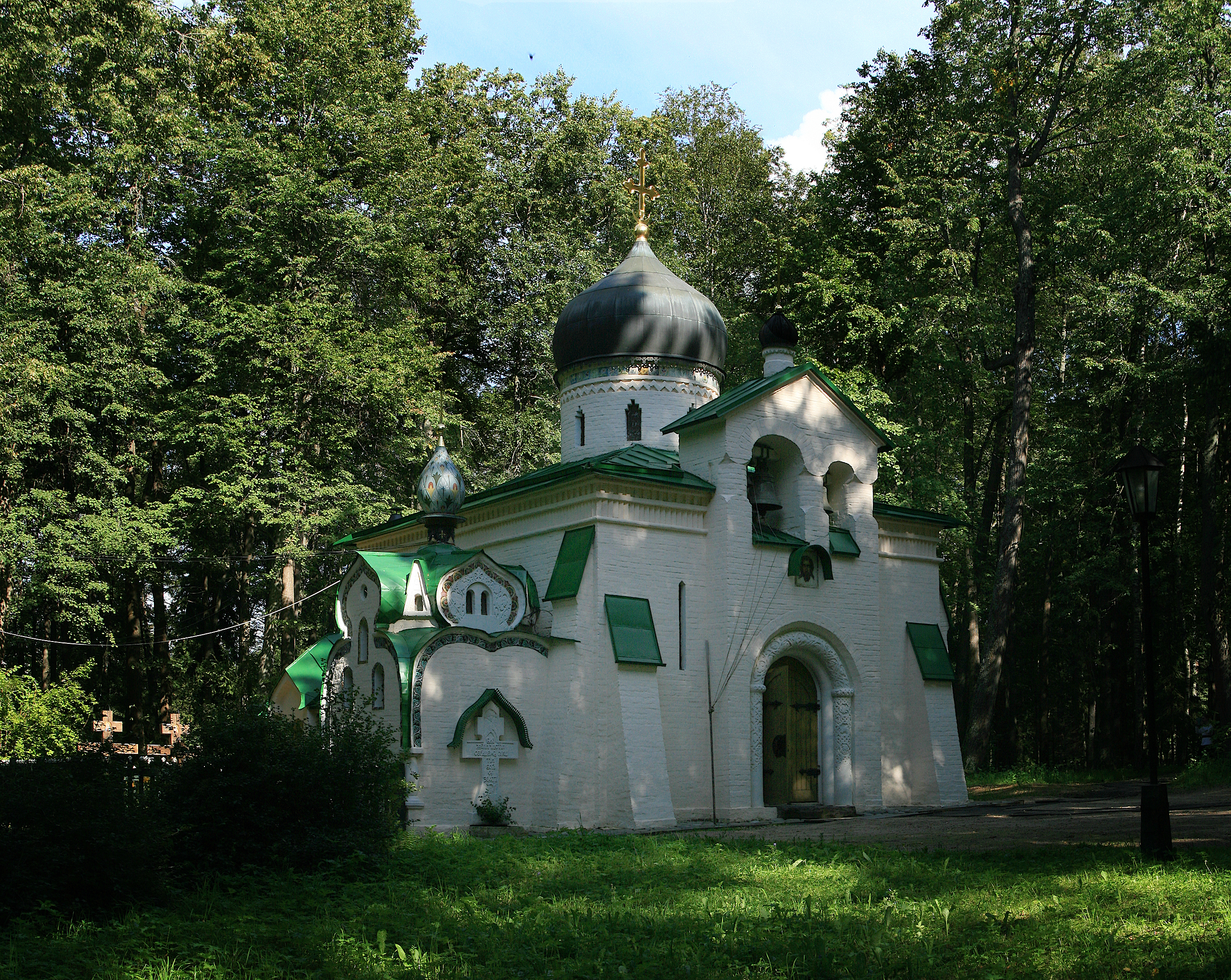 Church of the Holy Mandylion, Abramtsevo, Moscow Oblast